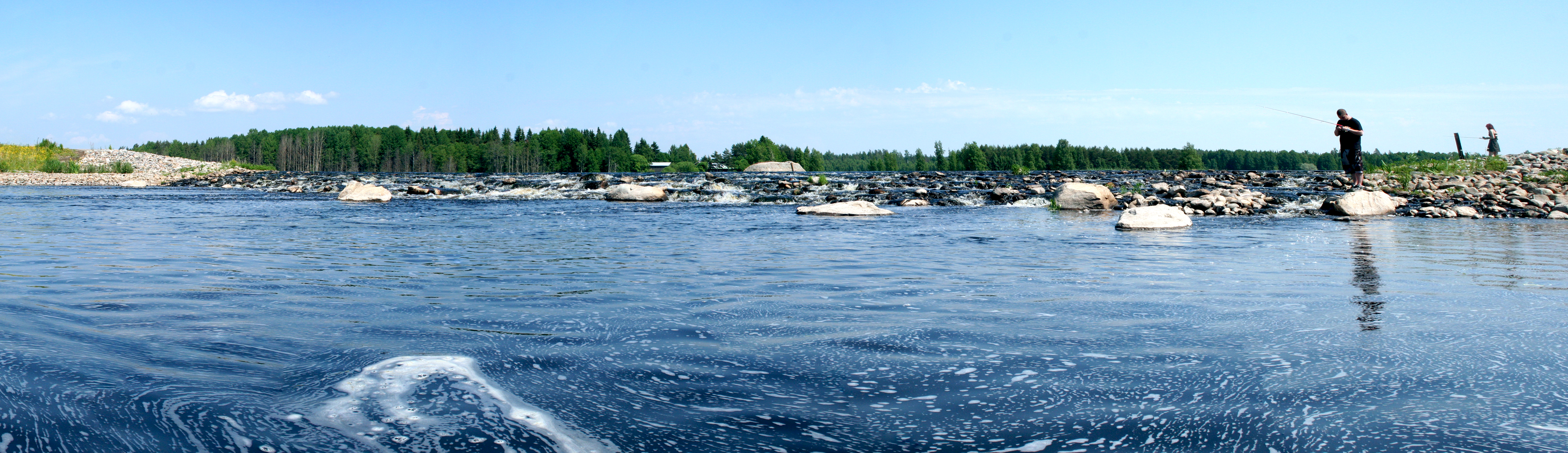 Lake Puurijärvi small dam, Huittinen, Kokemäki, Finnland